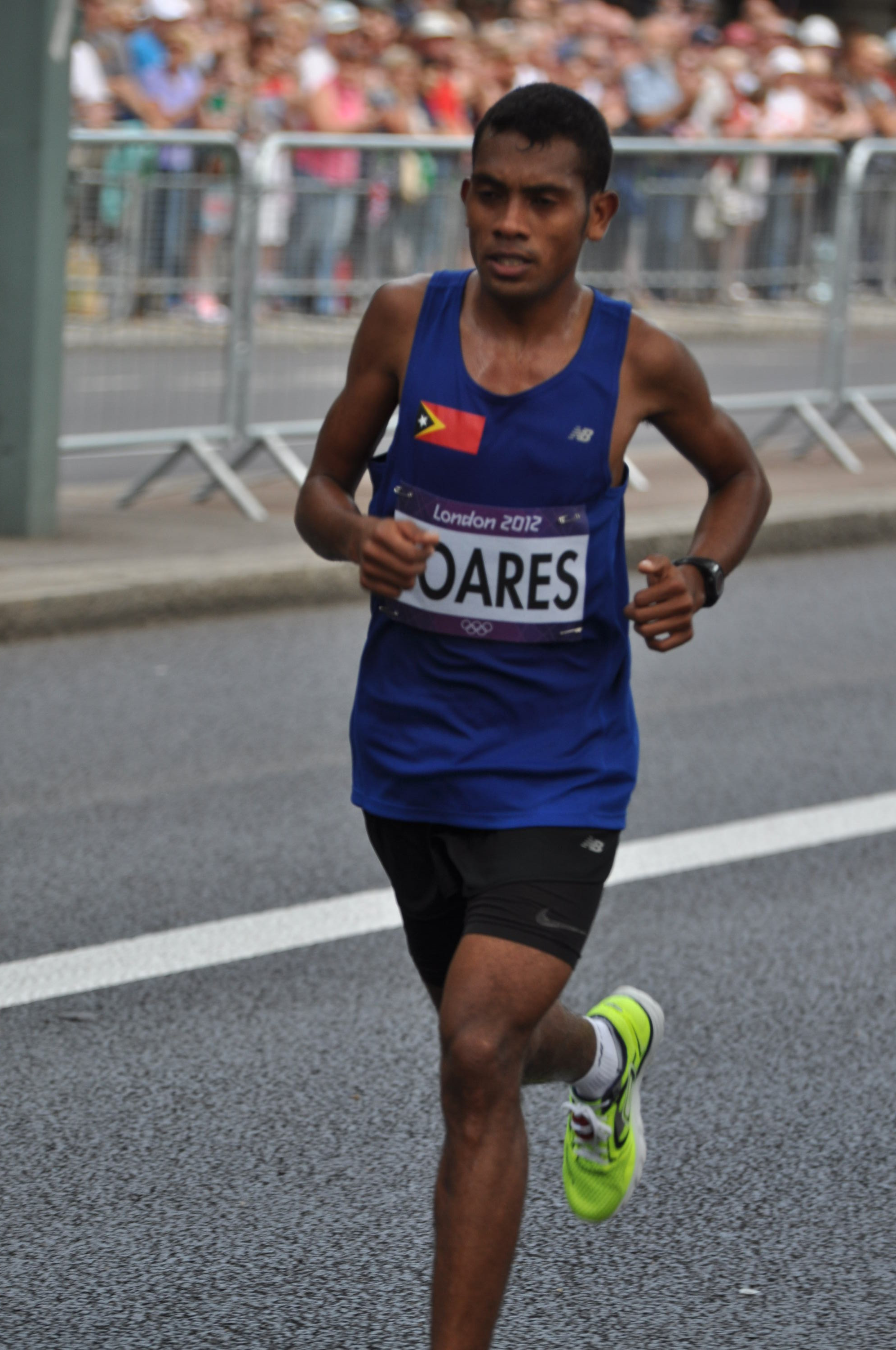 The men's marathon of the 2012 Summer Olympics in London, UK took place on an Olympic marathon street course on Sunday 12th August 2012 at 11:00. This was the final day of the 30th Olympic Games. The London 2012 marathon course is the standard Olympic distance of 26 miles 385 yards and consists of one short lap of approx 2.2 miles followed by three longer laps of 8 miles. The course began on The Mall and travelled past several of the most famous London landmarks. The start/finish line was near the Victoria Memorial. These photographs were taken at the Victoria Embankment. This featured several times on the looped course. The approximate location from the photographs is shown in the Google StreetView Link below. Stephen Kiprotich won in 2 hours, 8 minutes, 1 second as he pulled away from the Kenyan duo of Abel Kirui and Wilson Kiprotich Kipsang. These photographs are unofficial photographs. They are not endorsed by London 2012. There are not commercially available. They are available for use under a Creative Commons License. Please link back to the photograph on my Flickr account if you use the image.